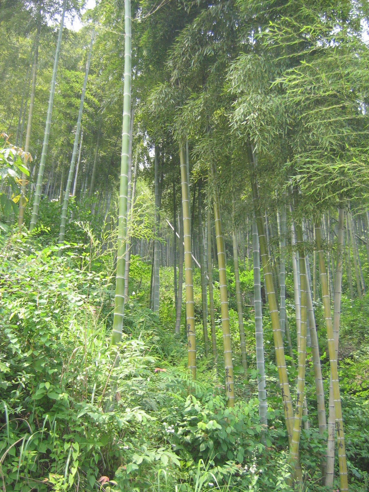 Bamboo forest in Anji, Zhejiang, China